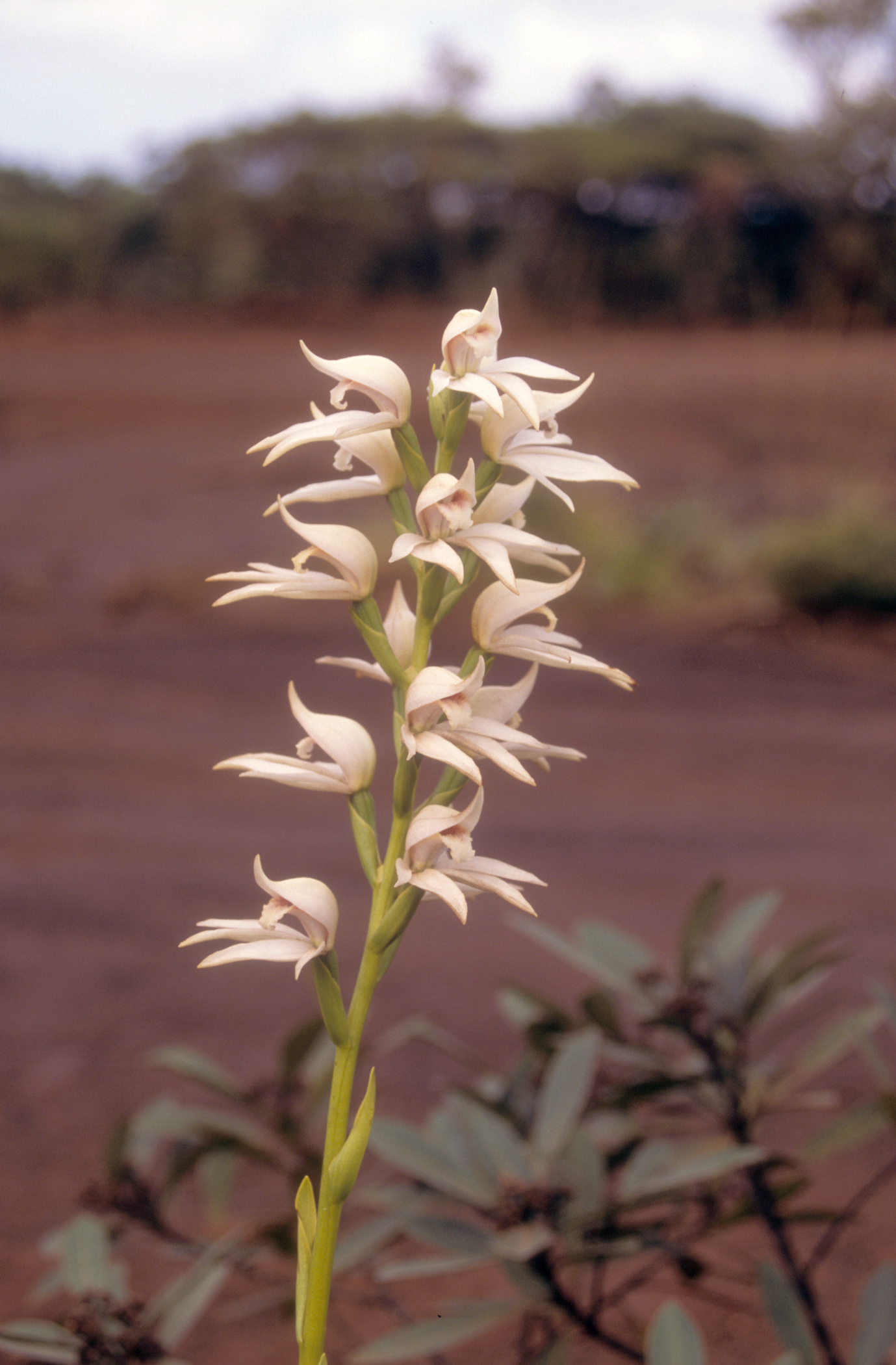 Megastylis gigas Plaine des Lacs, New Caledonia. Oct. 2000.